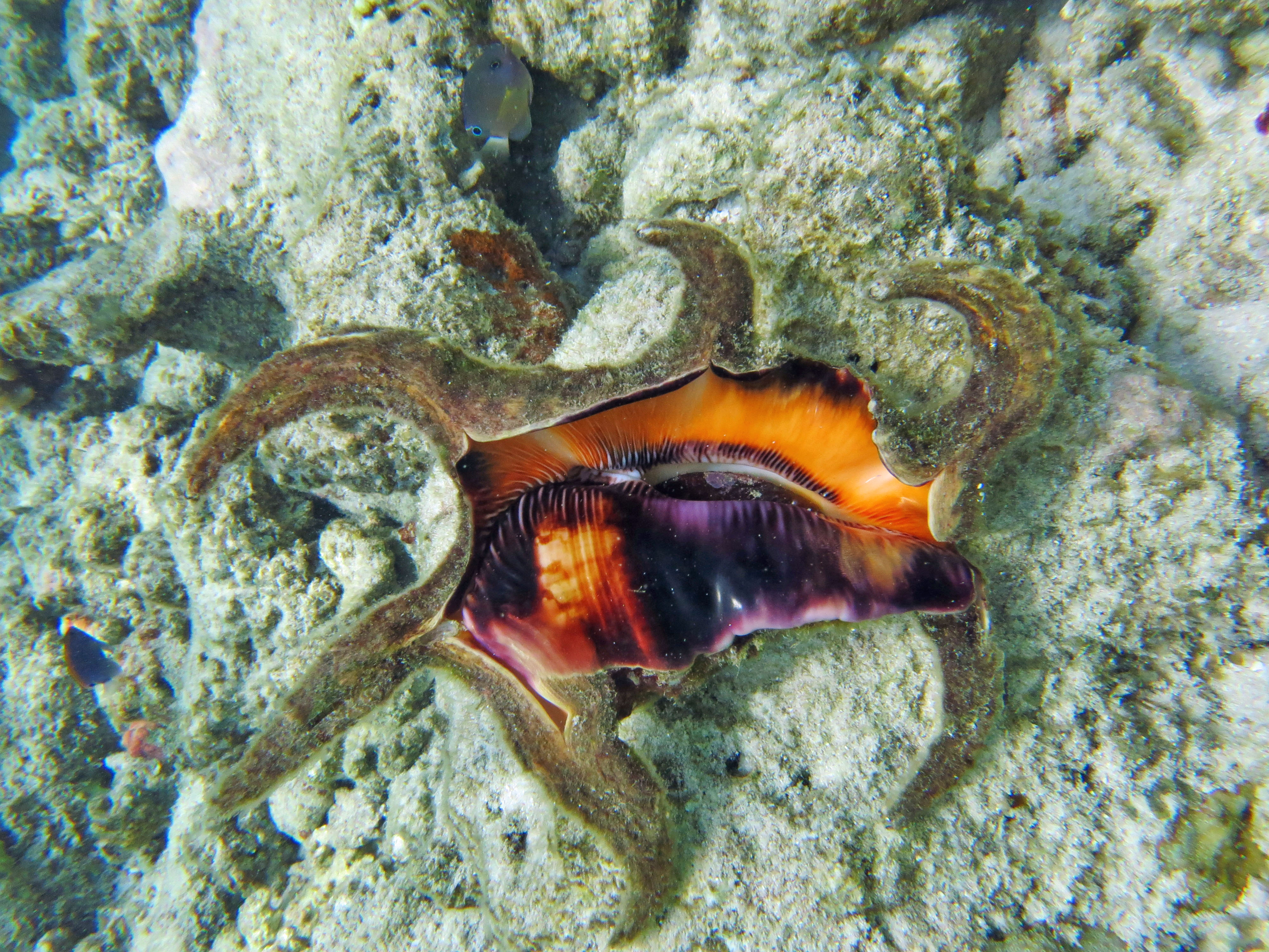 Live Harpago arthriticus from the Maldives (Baa atoll).